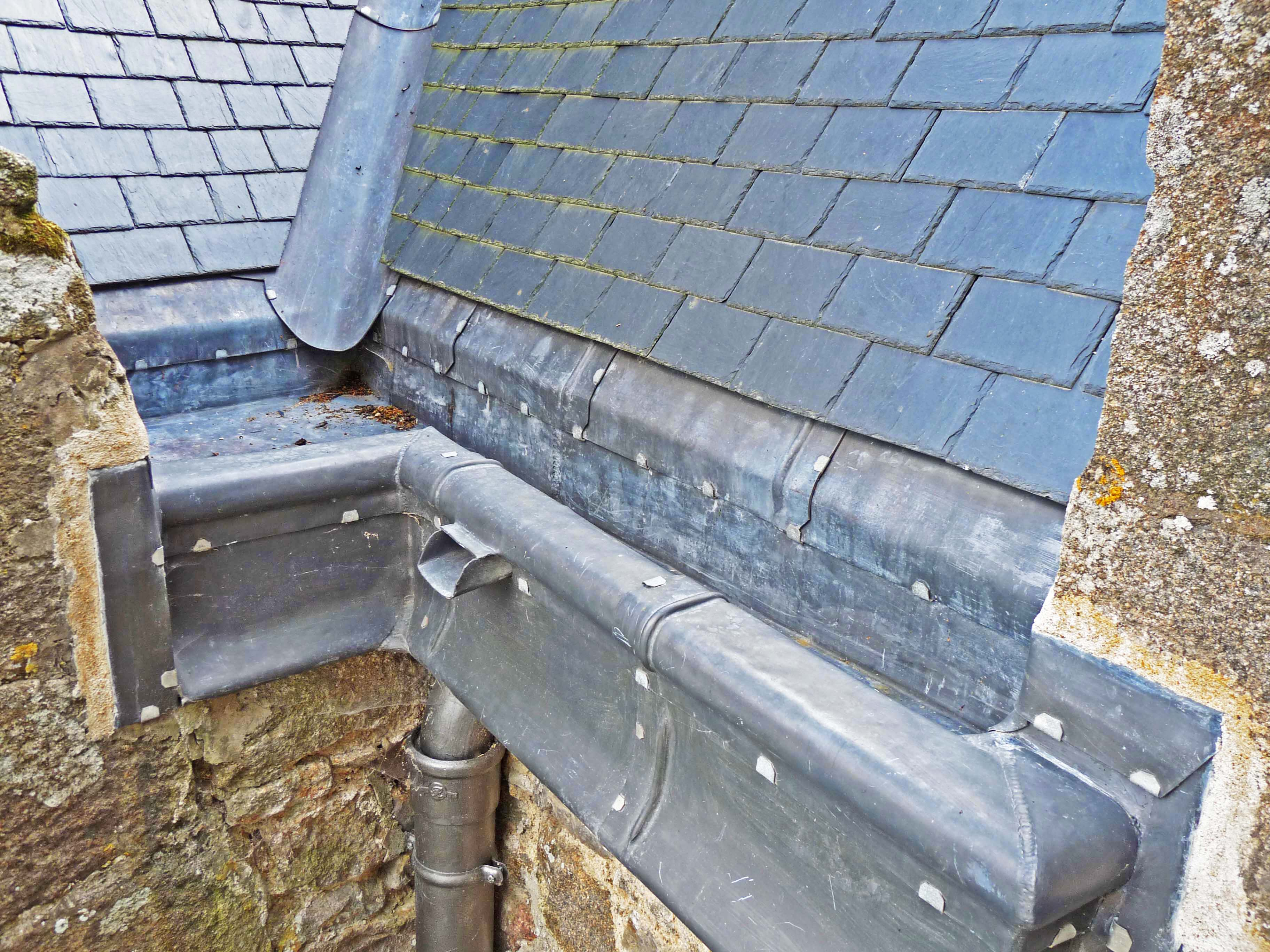 Gutter and lead works.